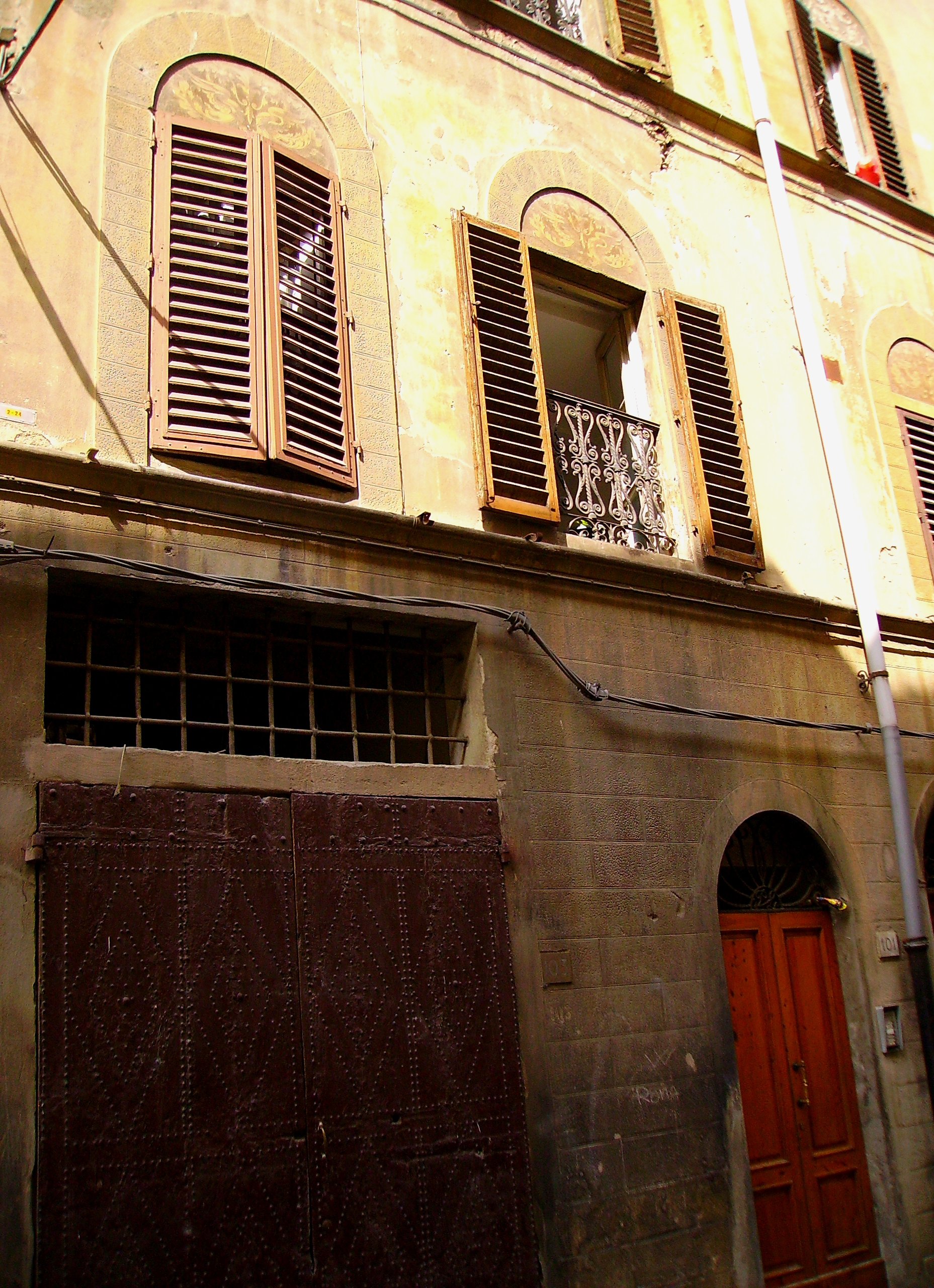 The house of Mari Family in via Cennano, where they were forced to move on 1809, having sold Palazzo Mari